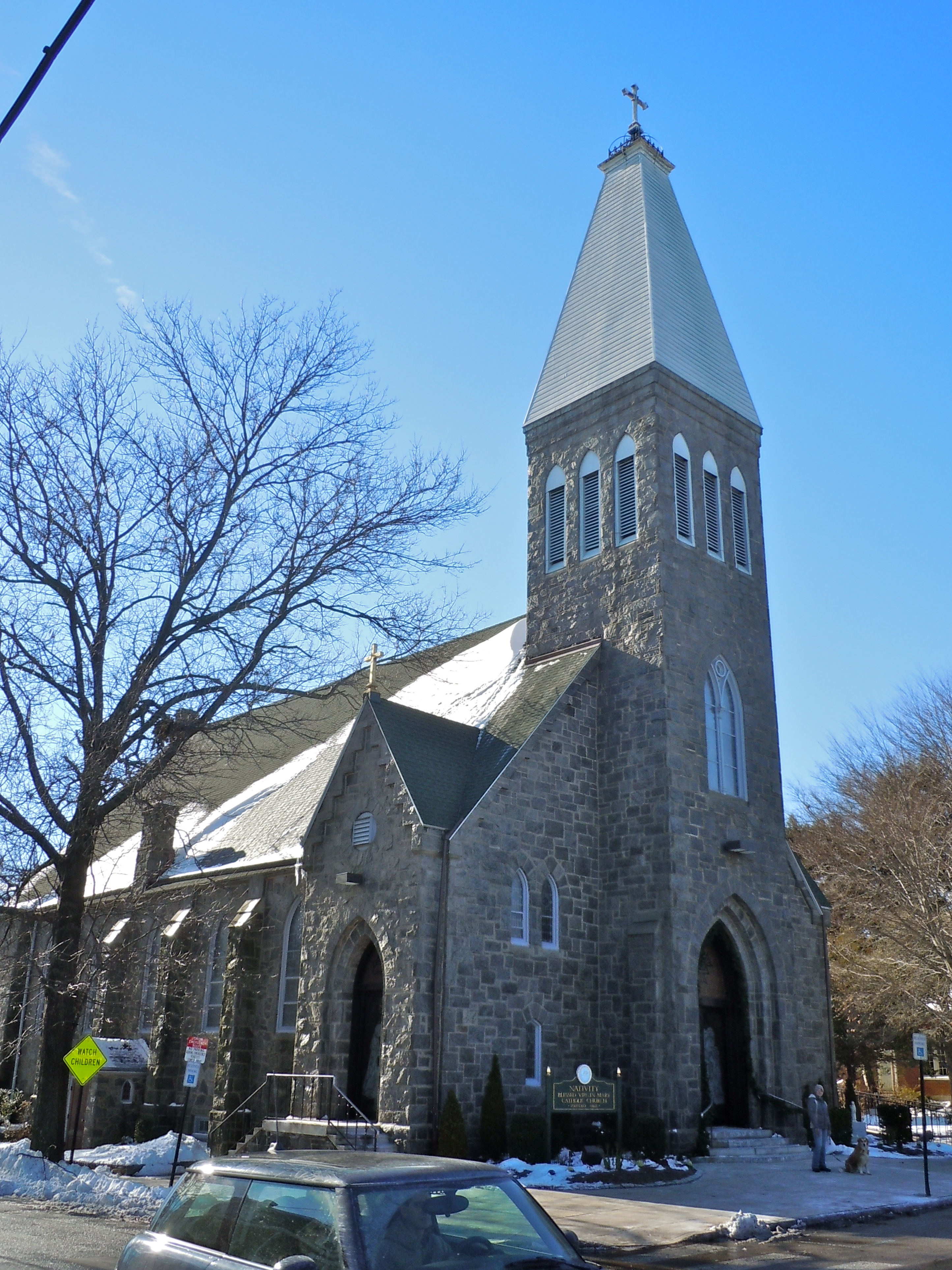 Church of the Nativity of the Blessed Virgin Mary (BVM) Media, Pennsylvania. First church, "Brick Church" was built 1862 as a Catholic Mission, first resident pastor 1868, and used as a church/sanctuary until 1882. The current church building (pictured) of parish of the Church of the Nativity of the Blessed Virgin Mary (BVM) was built in 1881-82, designed by Edward Durang. According to a borough plaque on the Brick Church, 1 block west. Double checked and the sign does say Edward Durang, but most likely means Edwin Durang noted Philadelphia architect of the time who specialized in Catholic Churches.